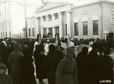 Procession passing in front of Tolstoy Museum (Kropotkin Funerals)